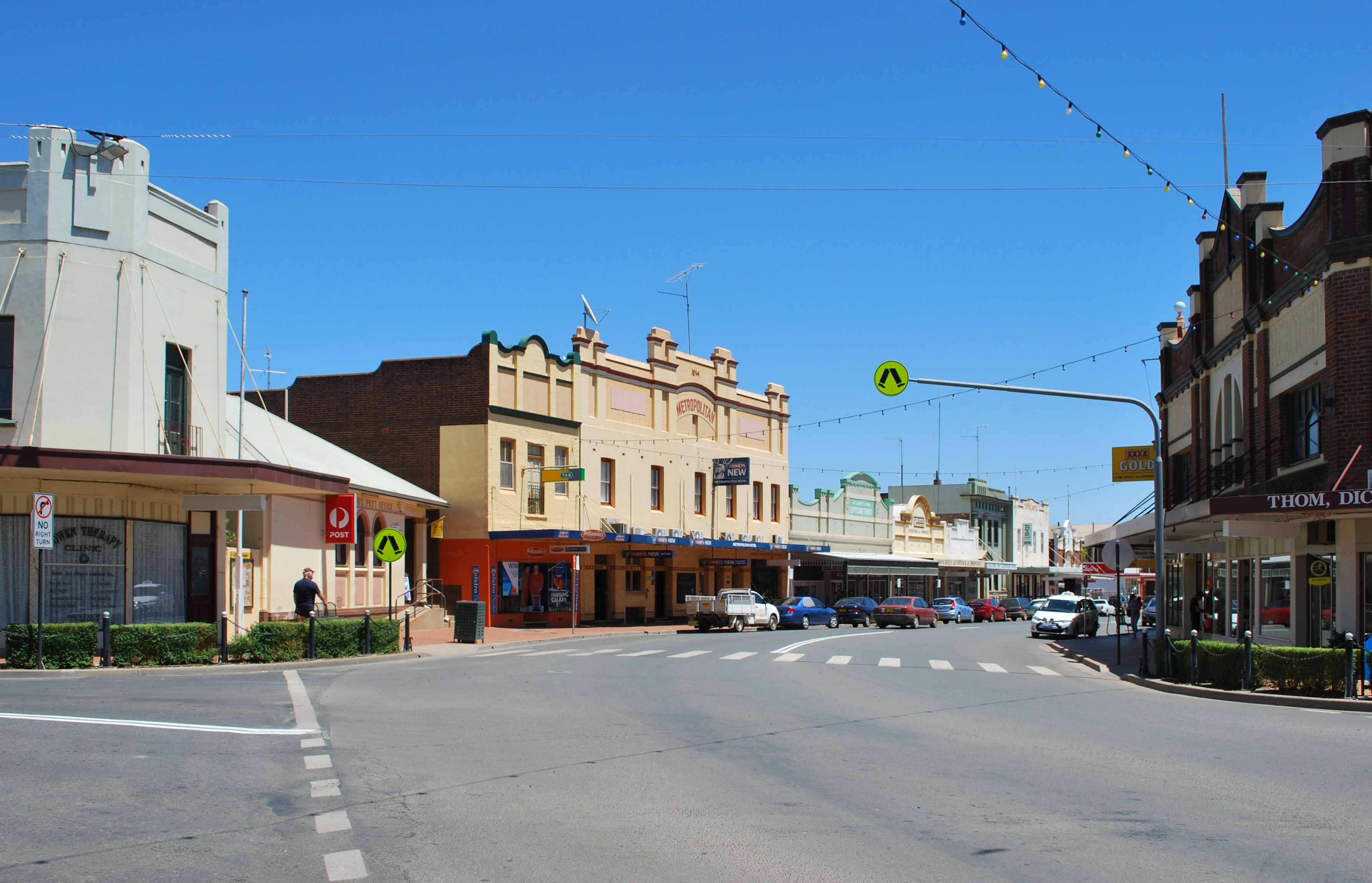 Main St (Newell Highway) at West Wyalong, New South Wales